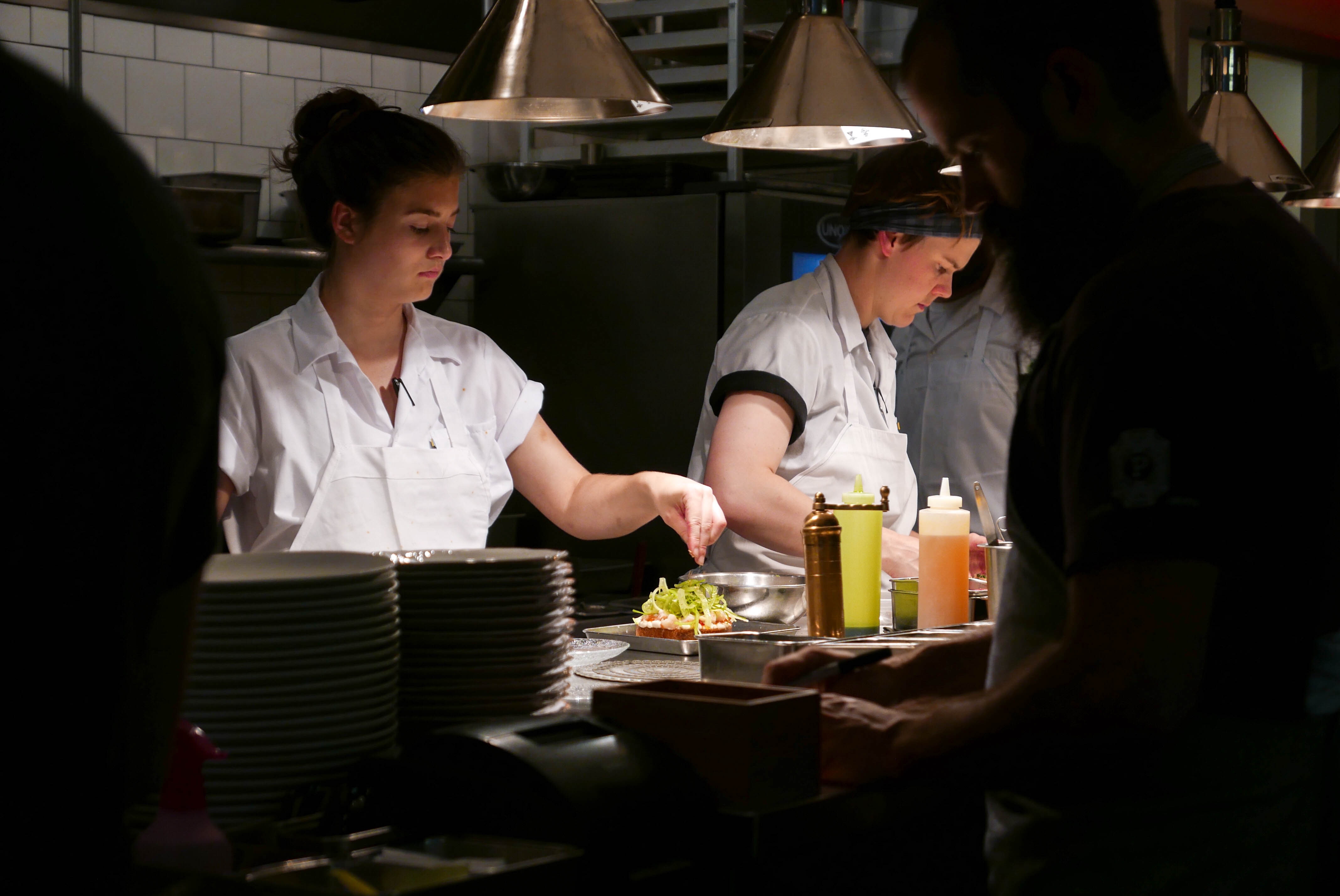 Rose's Luxury | Washington DC | 05/30/18 Lou Stejskal Twitter | Facebook | Instagram | YouTube | Foodle